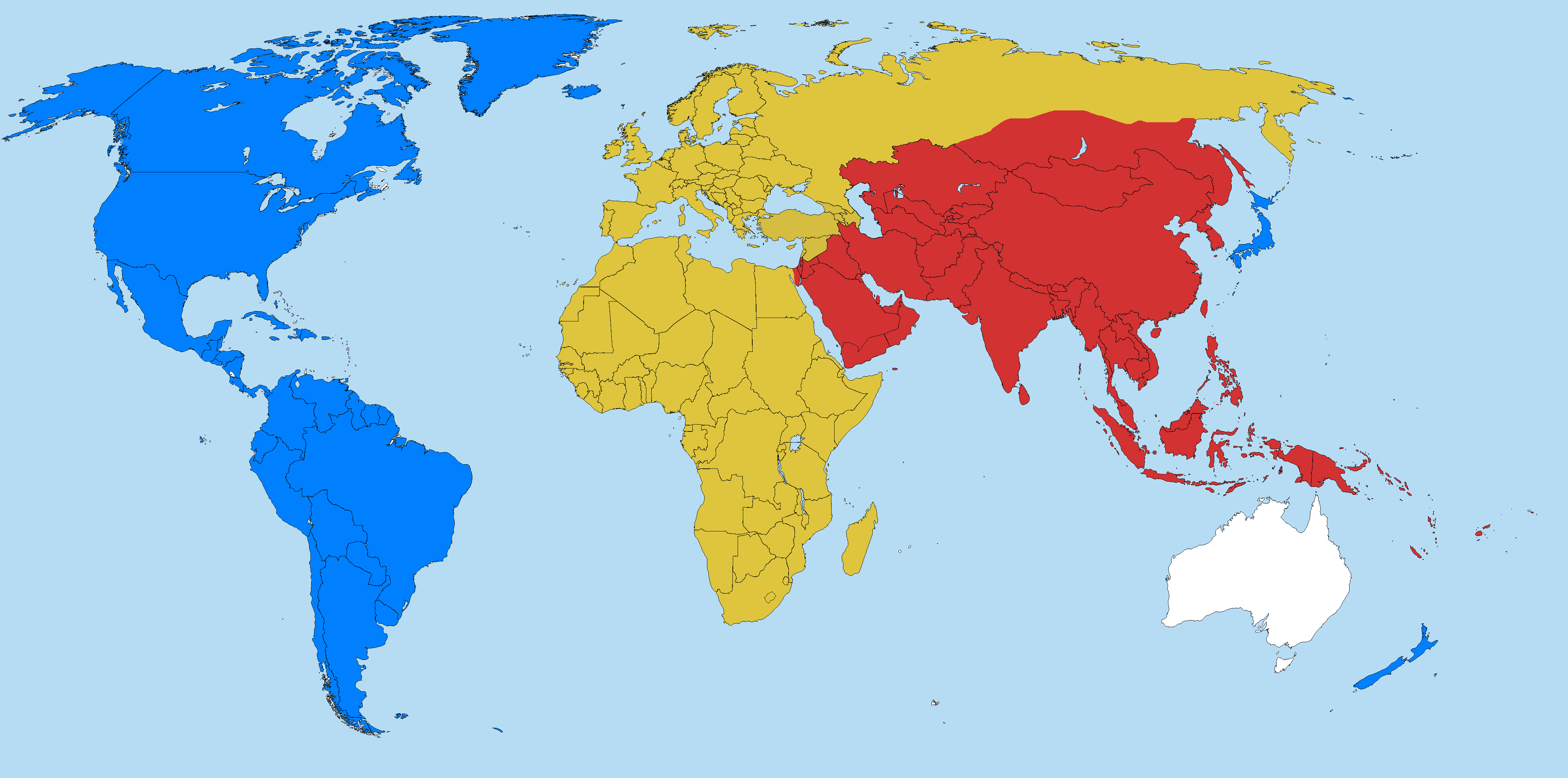 Code_Geass_map_2_(Japan_Invasion)